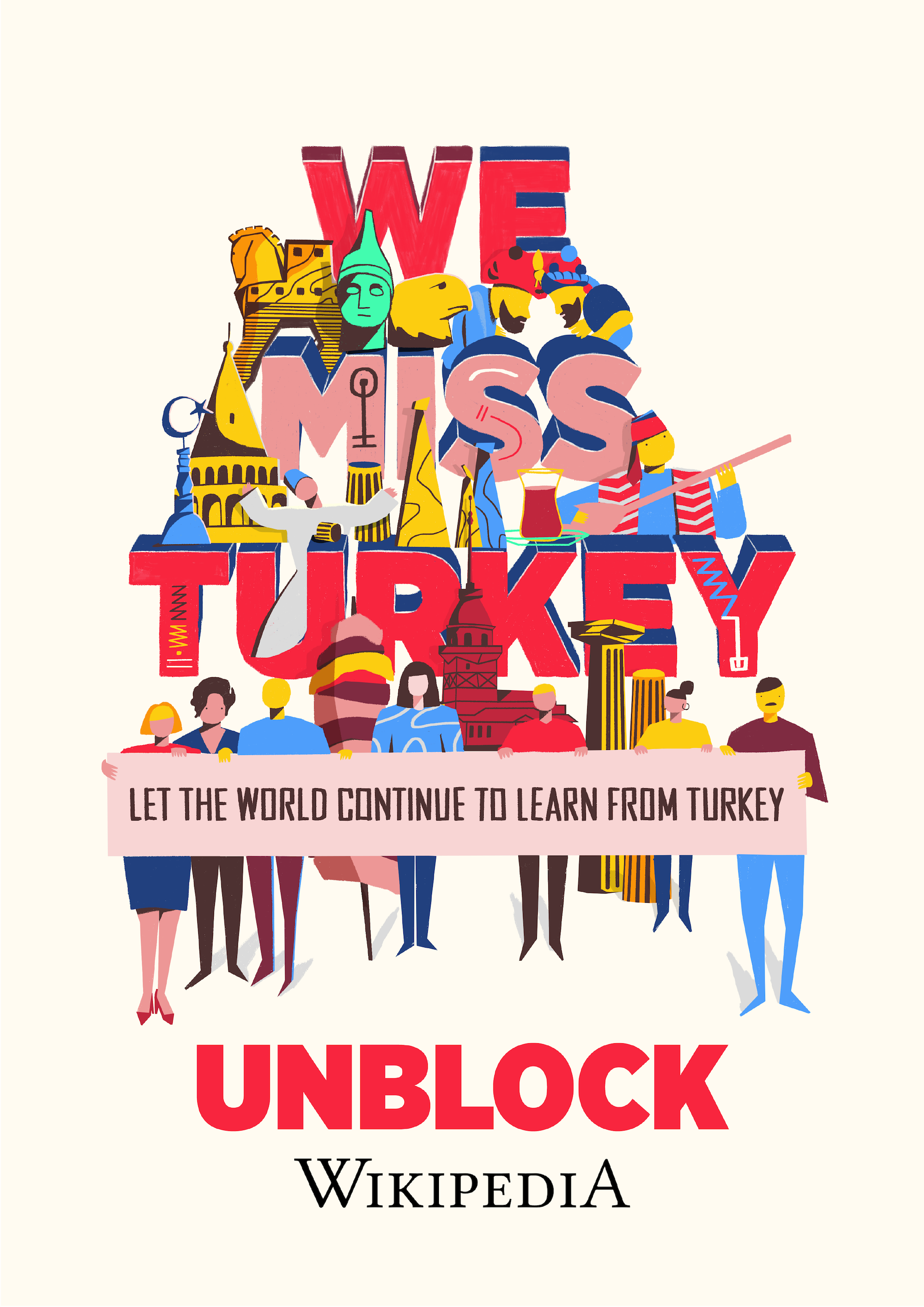 A poster made by Turkish artist Büşra Üzgün to support the "We Miss Turkey" campaign of March 2018. This work was commissioned by the Wikimedia Foundation and has been licensed accordingly under Creative Commons